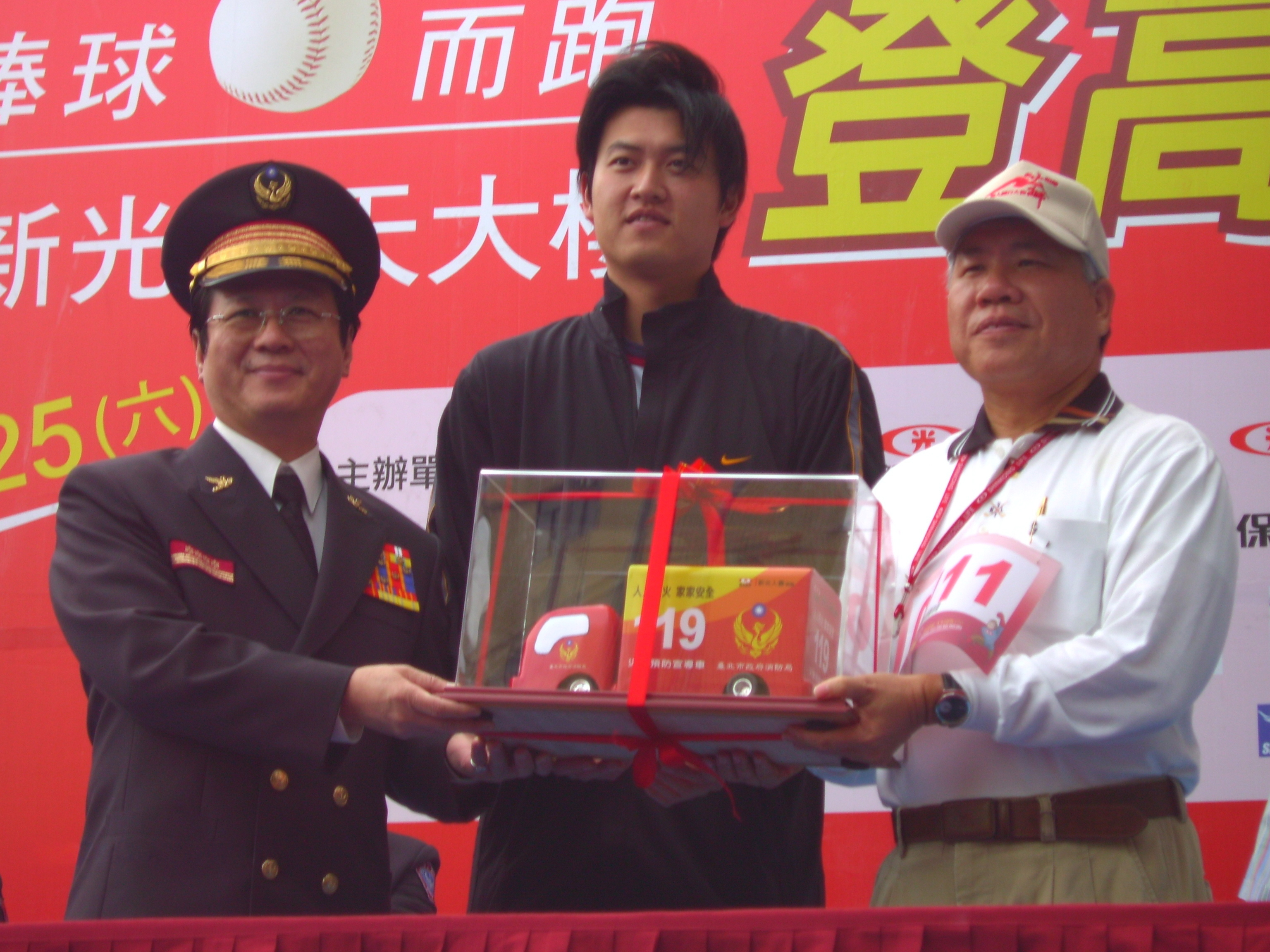 Chien-Ming Wang witnessed the Firefighting Promotion Cars Donating Ceremony between SKL Group and National Fire Agency, Ministry of The Interior, Taiwan.